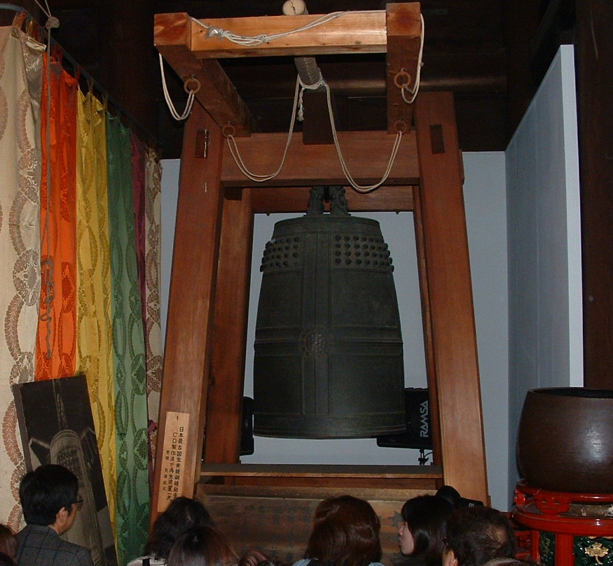 Oldest bell in Japan, Myoshin-ji Photograph by Gakuro